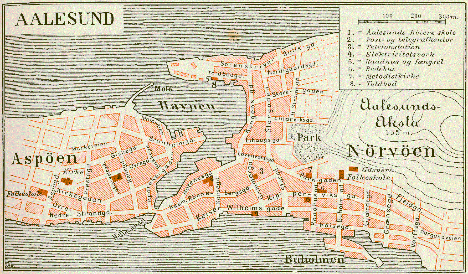 1907 map of Ålesund